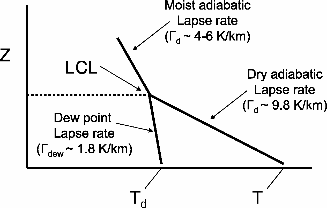 Schematic of the Lifting Condensation Level (LCL) in relation to the temperature and dew point and their vertical profiles; the moist adiabatic temperature curve above the LCL is also sketched for reference.